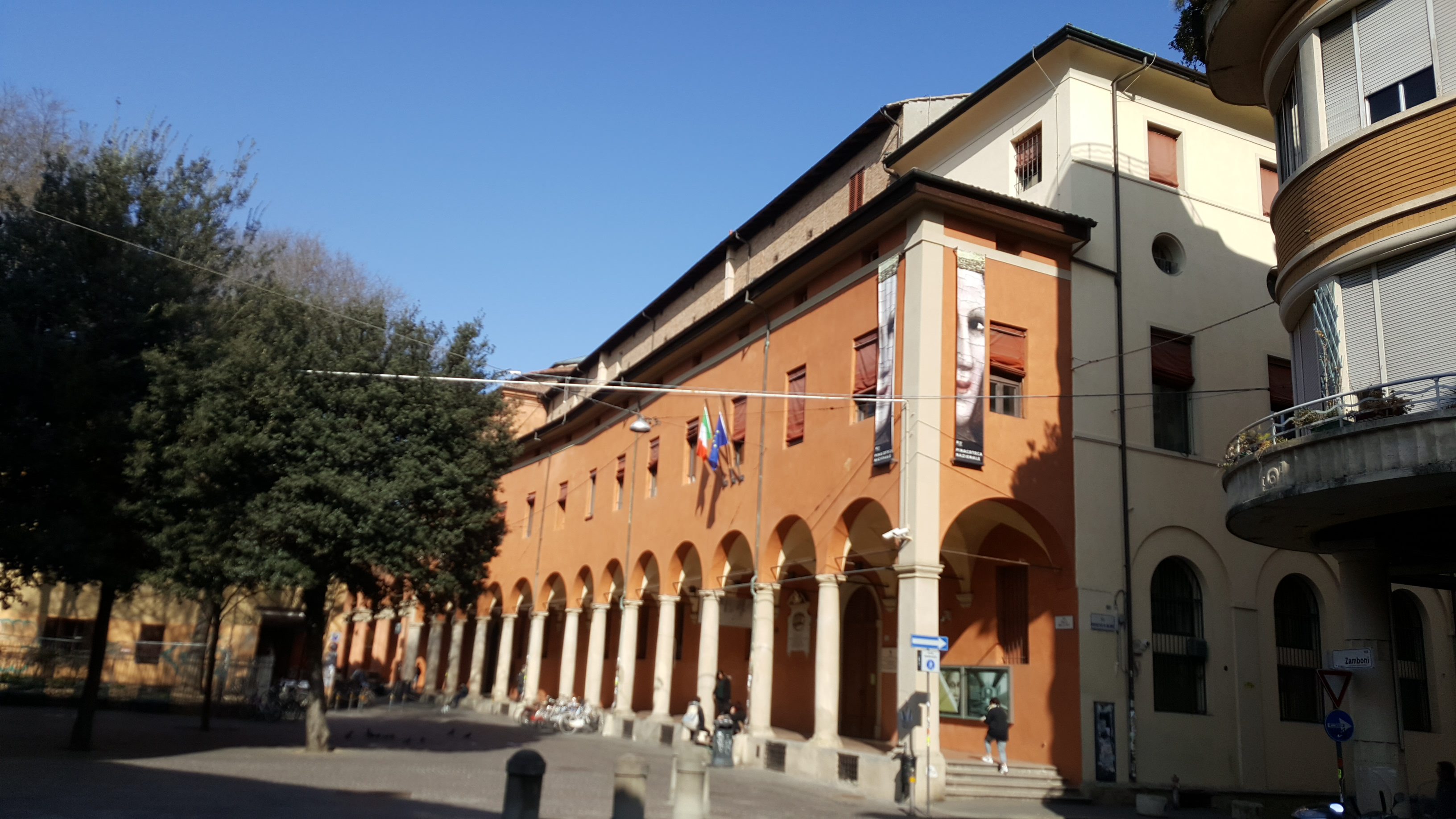 building, outside